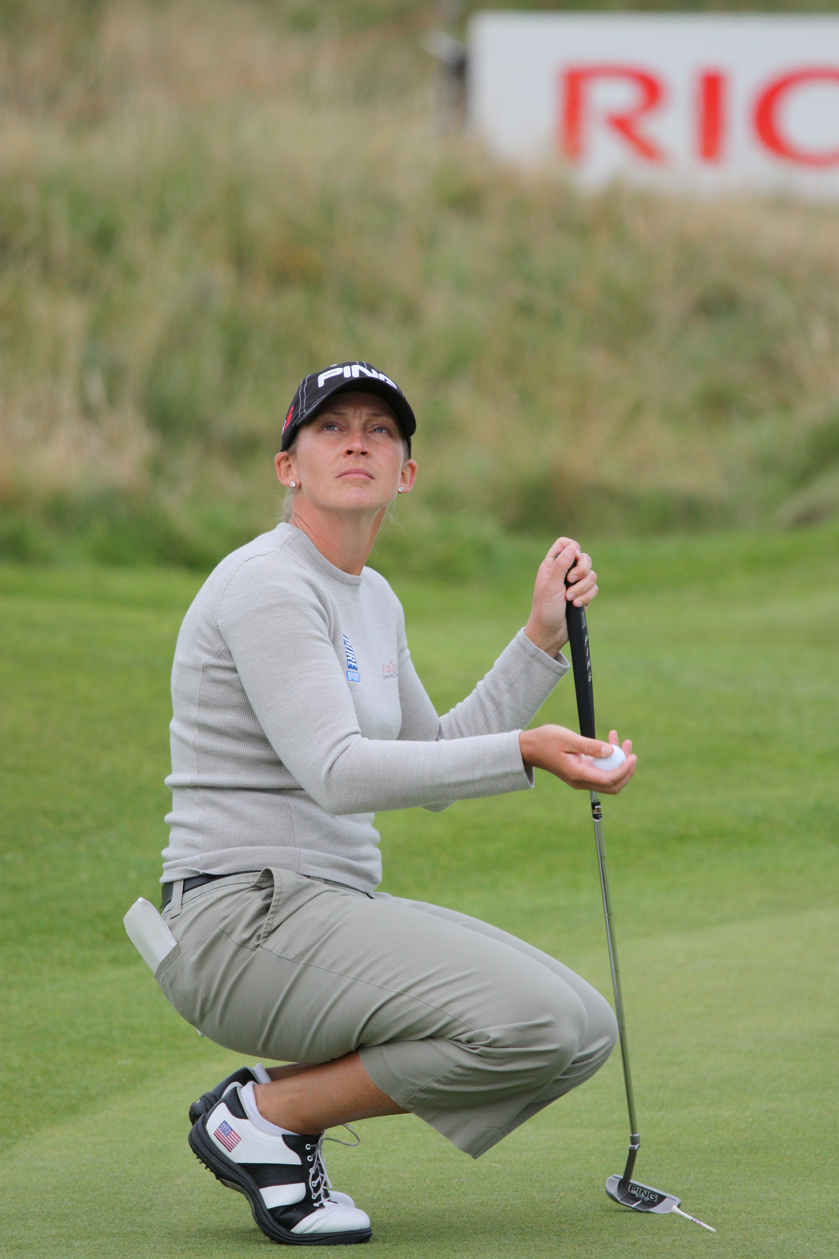 LYTHAM ST ANNES, UNITED KINGDOM - JULY 29: Angela Stanford of USA at the 15th green during third practice round before 2009 Ricoh Women's British Open held at Royal Lytham & St Annes on July 29, 2009 in Lytham St Annes, England. (Photo by Wojciech Migda)